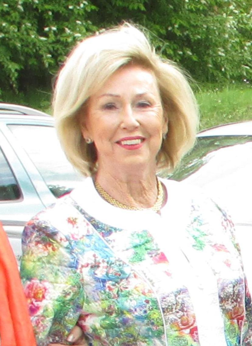 Anitha BondestamPlace: Confidencen parking lot, Ulriksdal, Solna, Sweden